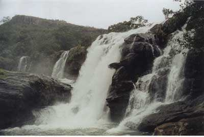 Thoovanam Waterfalls.